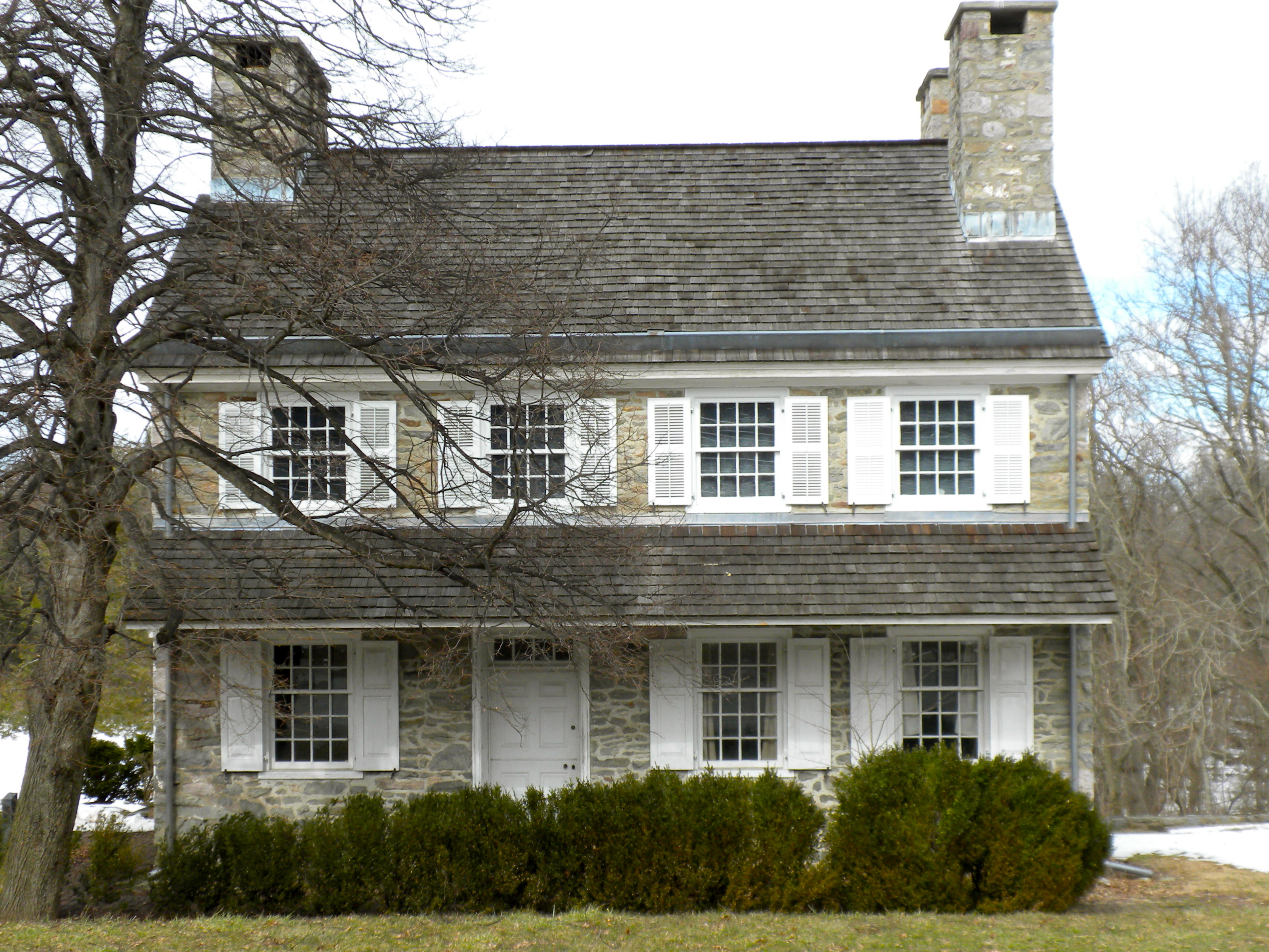 Building known as "Gen. Frederick Von Steuben Headquarters" in Valley Forge National Park. A National Historic Landmark, and on NRHP since November 28, 1972. On Pennsylvania Route 23 near the western edge of the Park and eastern edge of Schuykill Township.. Why "so called" in the title? The Park Service doesn't identify this on it's VF Park Maps anymore, and the location of Steuben's HQ has been controversial, both before and after 1972. It's likely he had several quarters. See NPS site (from Treese's book also available on google books) and